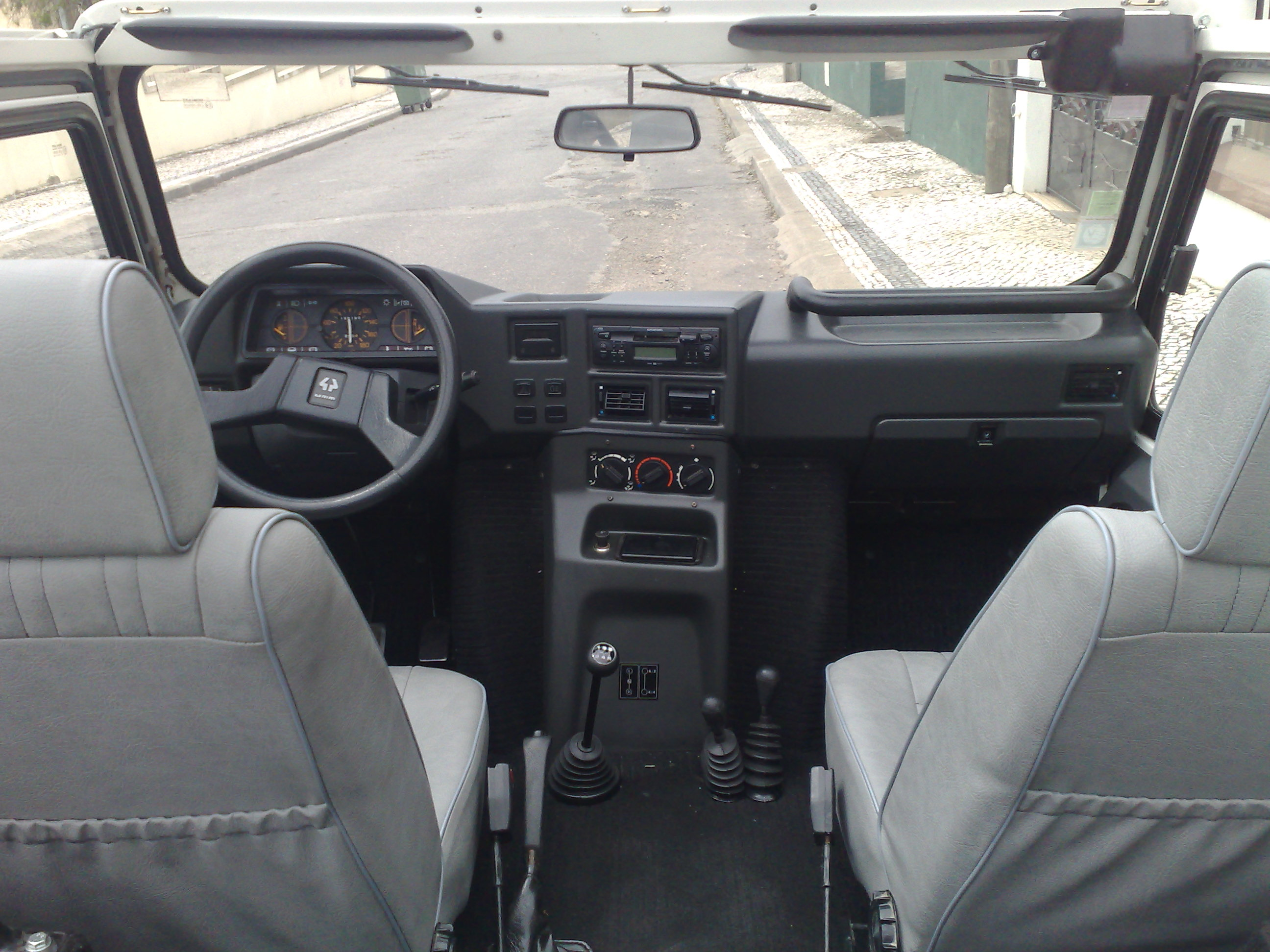 UMM Alter turbo cabrio 1993 interior